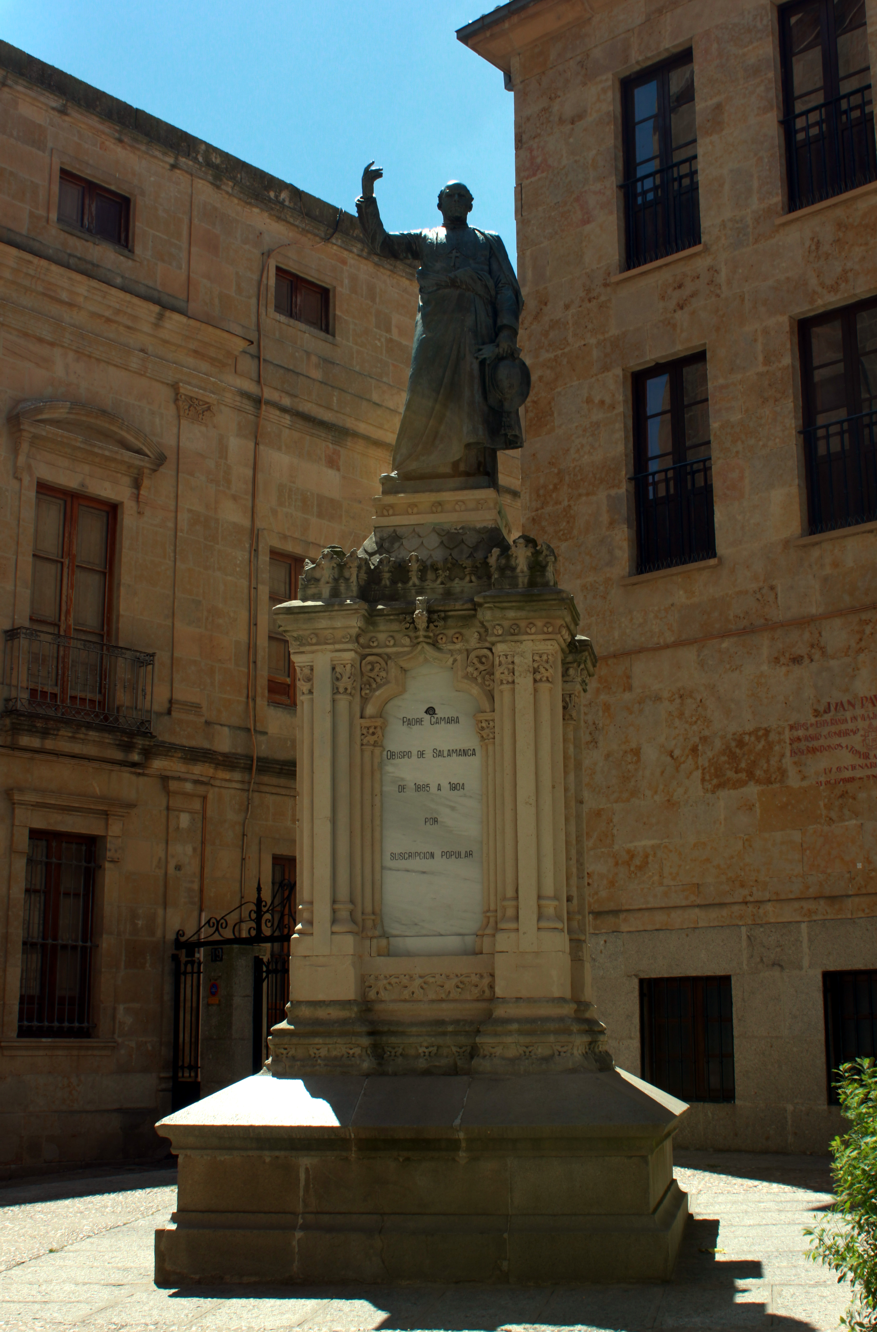 Statue tribute to Father Cámara, Bishop of Salamanca between 1885 and 1904, in Salamanca, Spain.